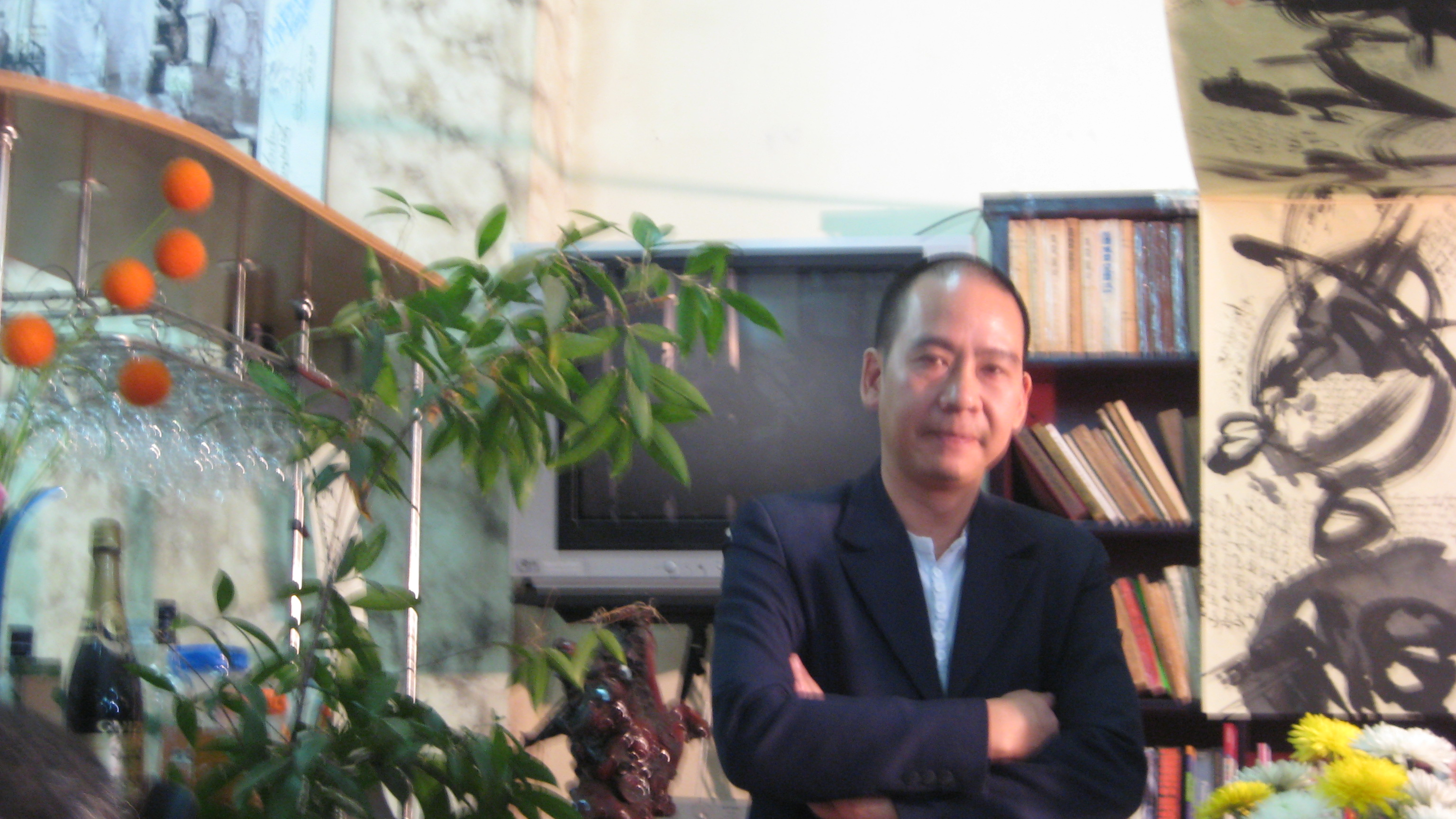 Dang Than (Vietnamese writer)